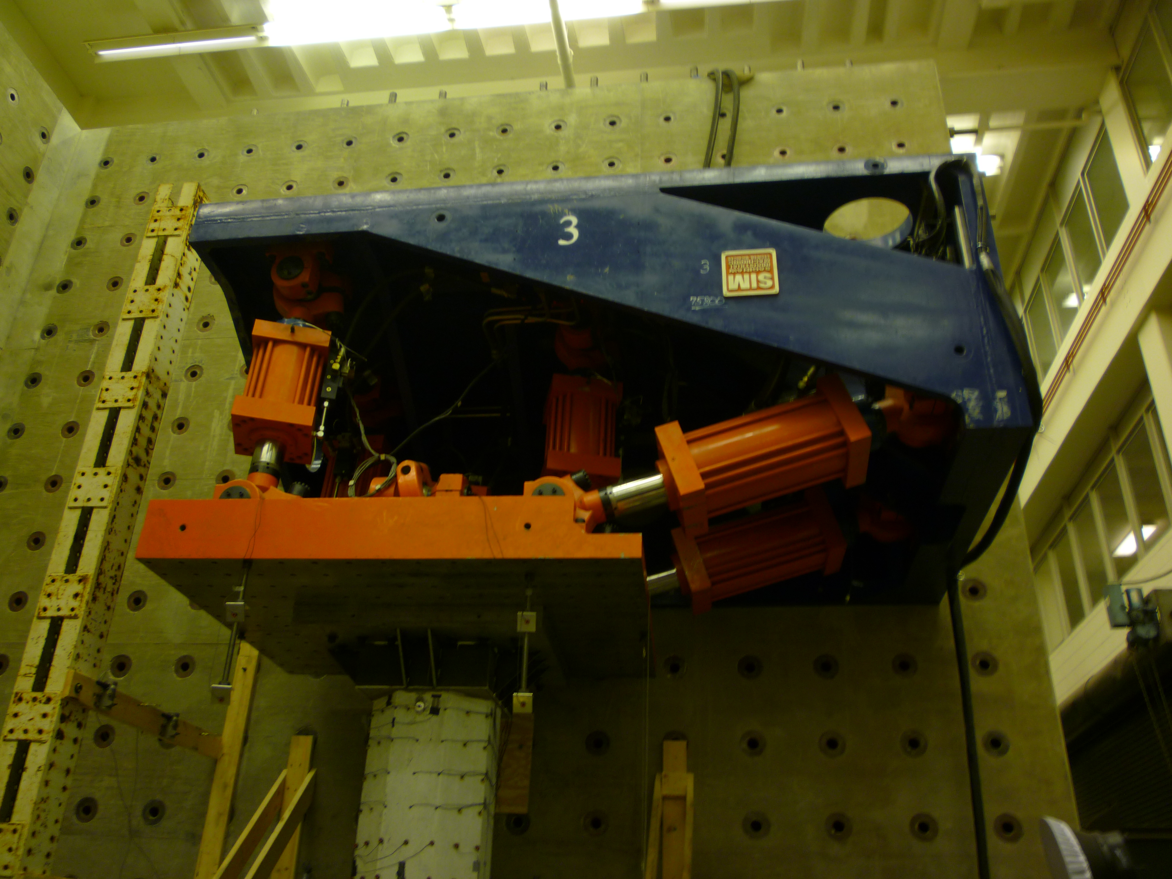 This is a load confinement box from the the University of Illinois, UC Structural engineering lab. It was taken from a blog which presents captioned civil engineering photographs free of charge.